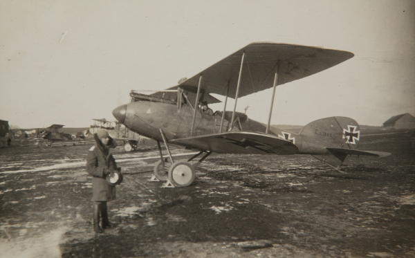 Albatros C.XII